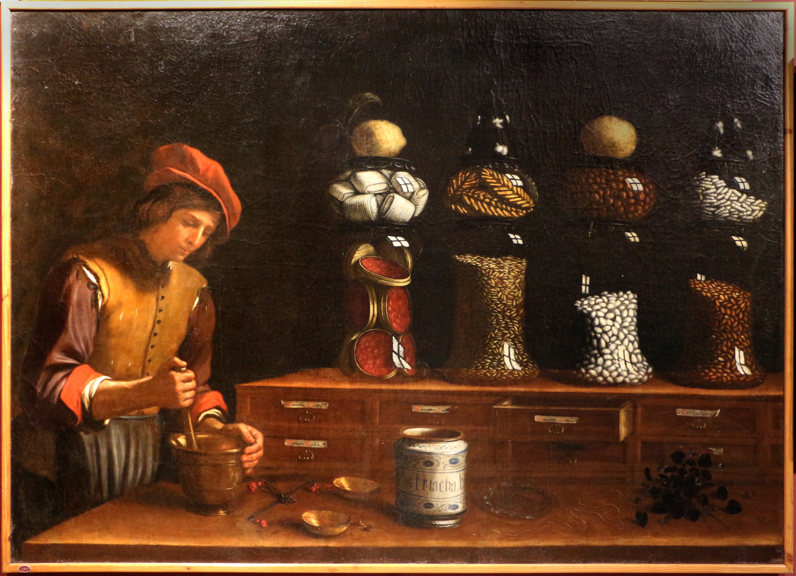 Il Tesoro d'Italia (exhibition at Expo 2015)